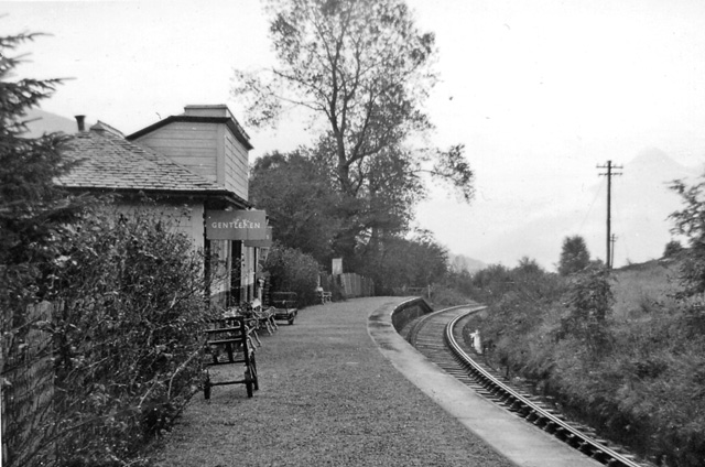 Ballachulish Ferry Station. Eastward view towards Ballachulish (Glencoe), on branch from Connel Ferry. Line closed 28/3/66. Note the check-rail on the sharp curve, also the prominent facility for Gentlemen.